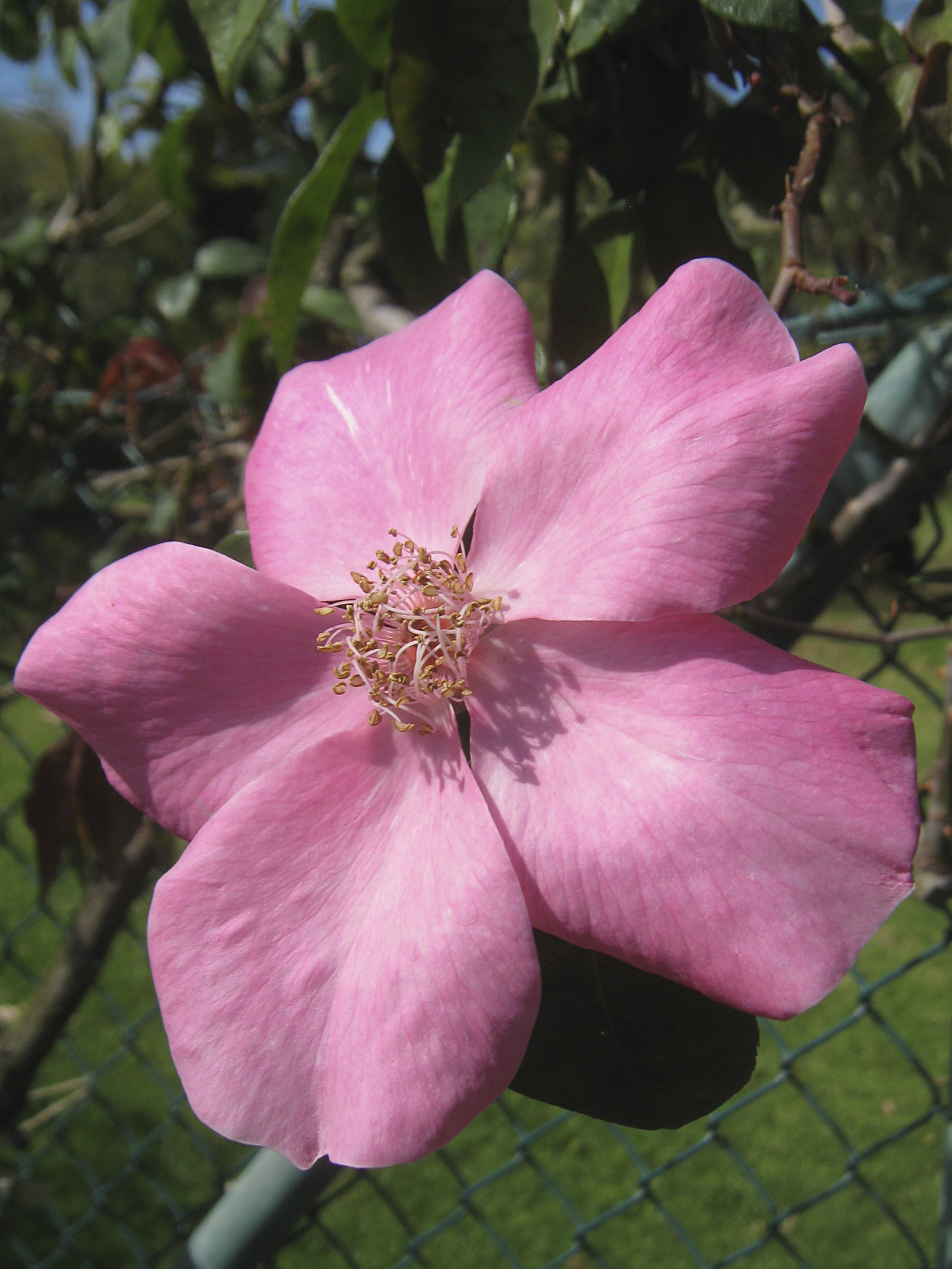 Rose 'Jessie Clark', Hybrid Gigantea by Alister Clark 1915; photographed in the Victoria State Rose Garden, Werribee Park, Victoria